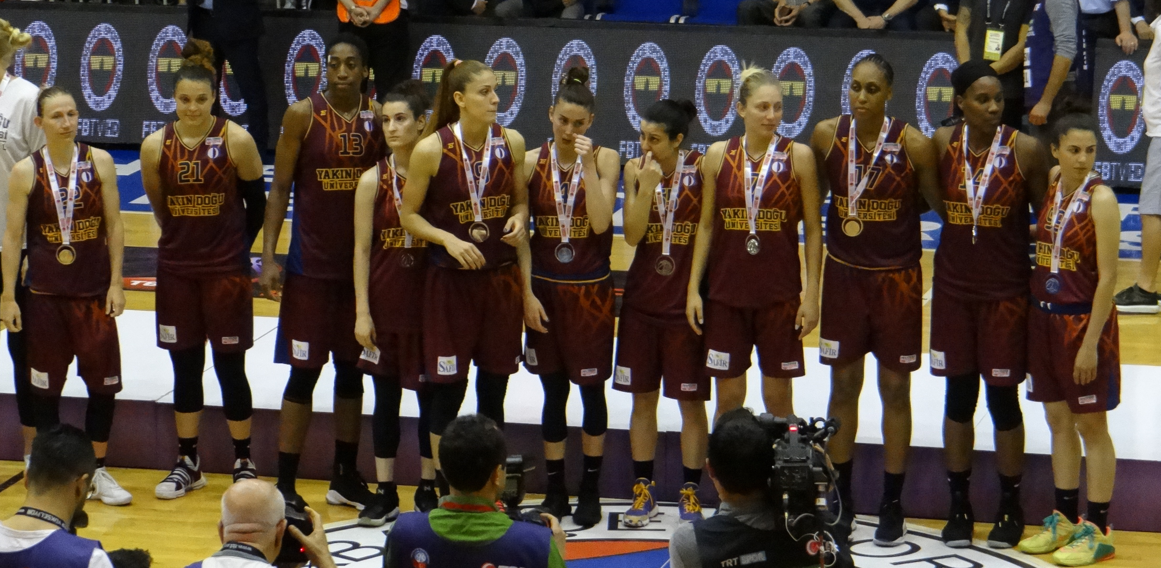 Fenerbahçe Women's Basketball vs Yakın Doğu Üniversitesi (women's basketball) TWBL 20180521